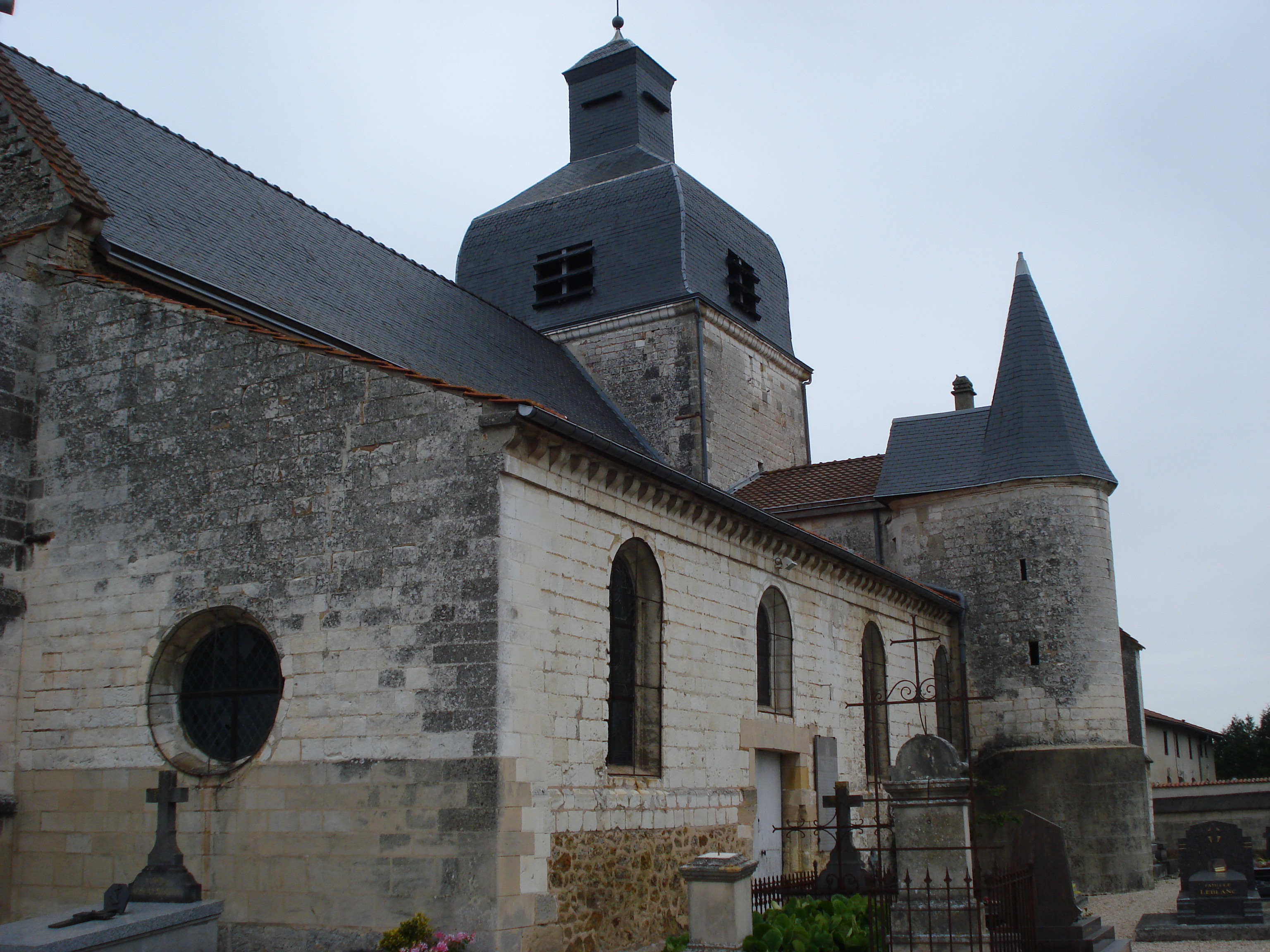 Church of Saint-Germain-la-Ville.